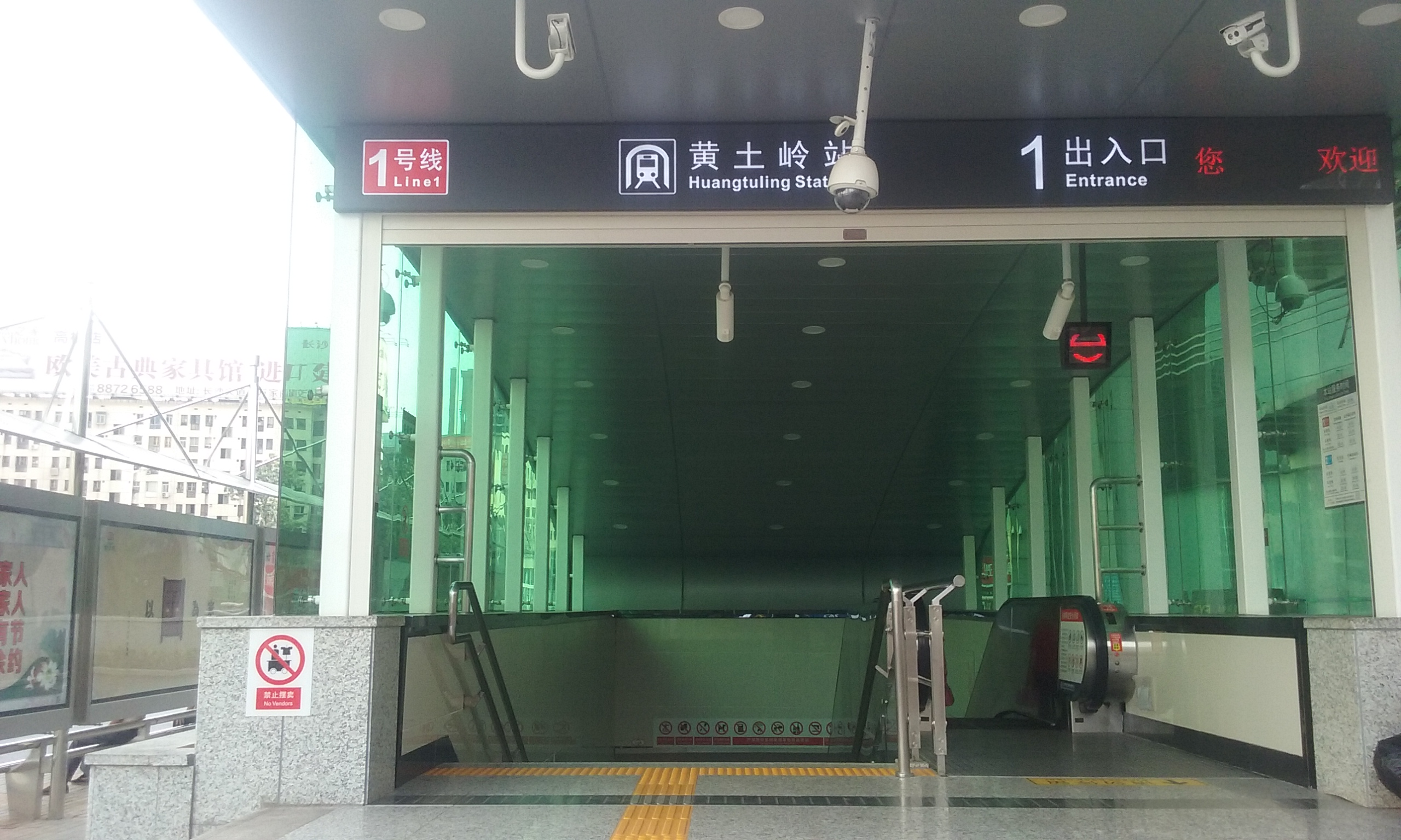 Entrance No.1 of Huangtuling Station